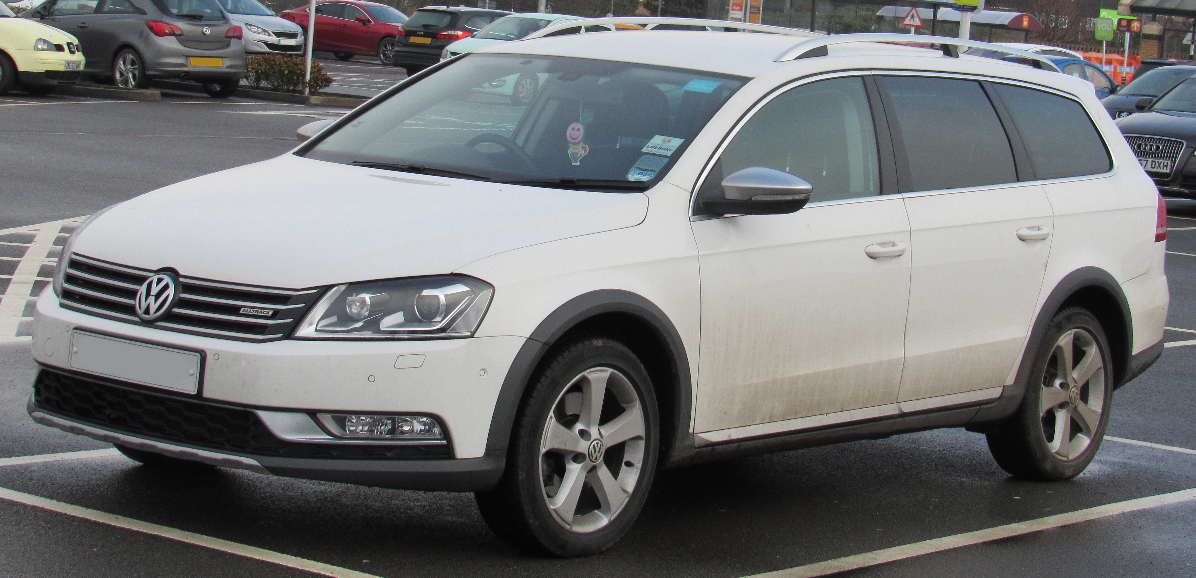 2013 Volkswagen Passat Alltrack TDi BMT 4MOTION 2.0 Front Taken in Leamington Spa